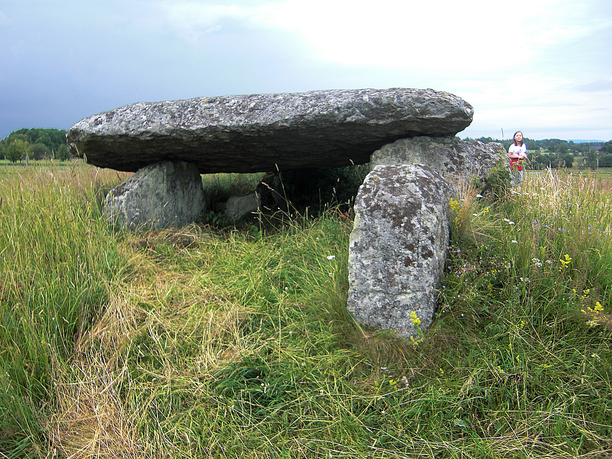 The northeast one of the two Neolithic passage graves at Hallabacken (RAÄ-nr Vårkumla 14:2, former Vårkumla 15:1) in Vårskäl, Vårkumla parish, Frökind hundred, Falköping Municipality, Västergötland, Sweden.